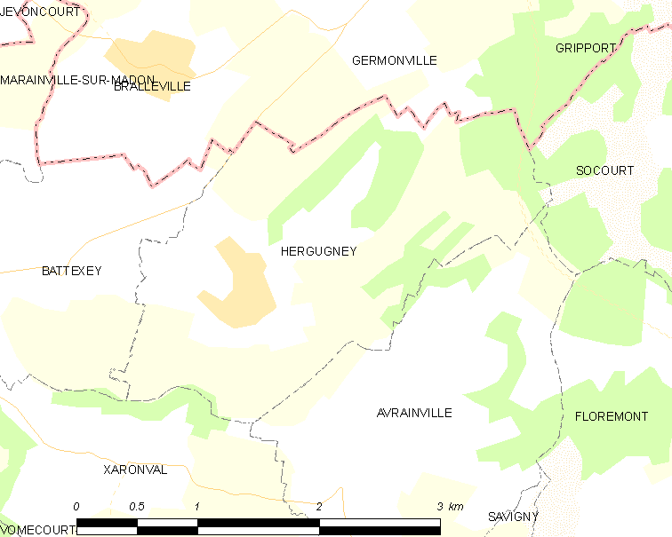 Map of French municipality Hergugney